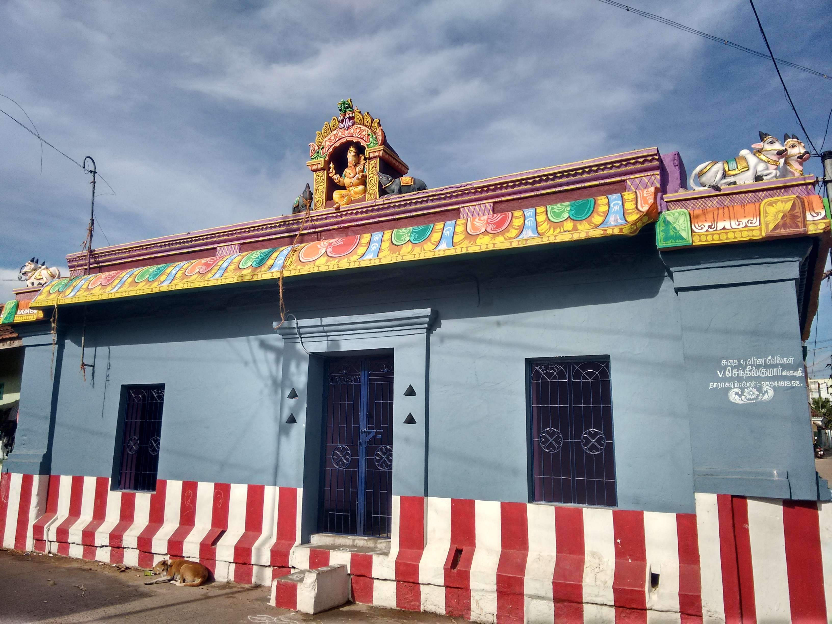 Pettai panjukkara street vinayakar temle1 பேட்டை பஞ்சுக்காரத்தெரு விநாயகர் கோயில்1